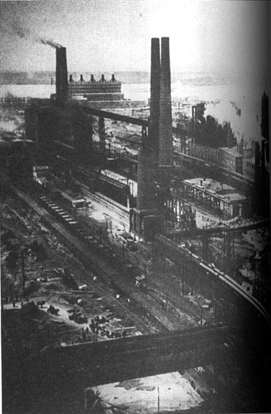 A steel production of the combine of Magnitogorsk (MMK) in Soviet Union, taken somtime in the 1920s-30s.